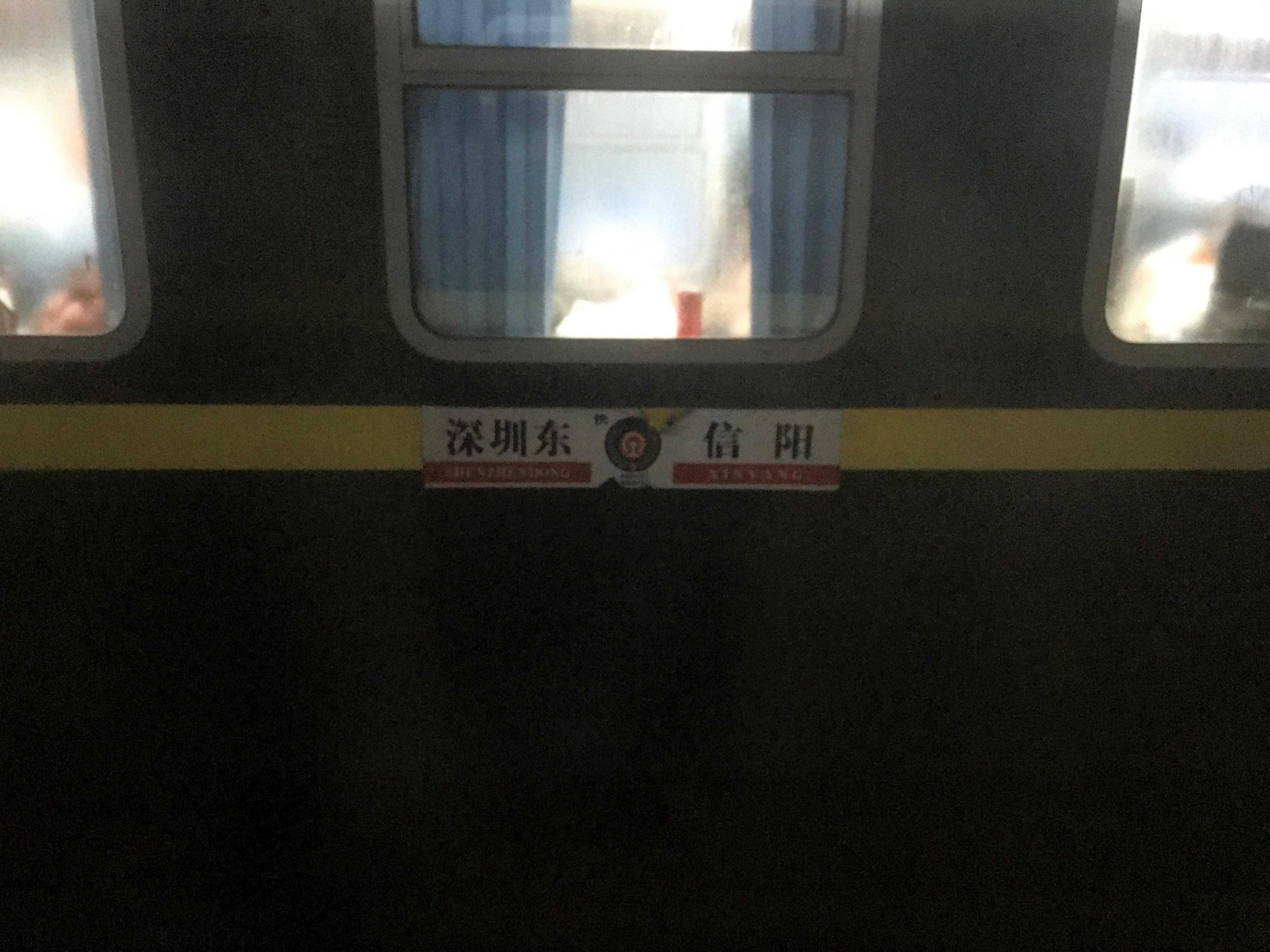 Taken at Ganzhou Station